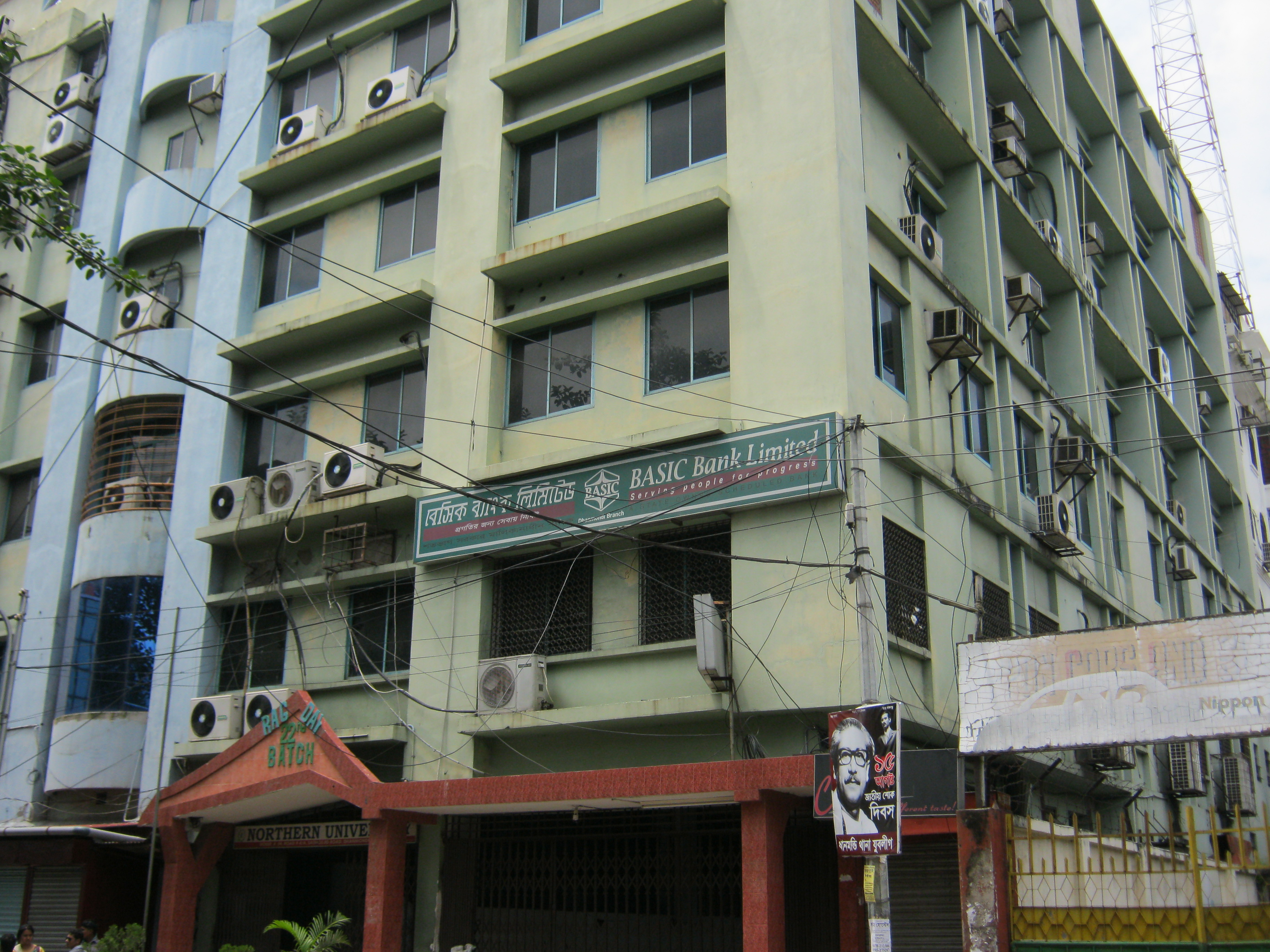 Northern University Bangladesh